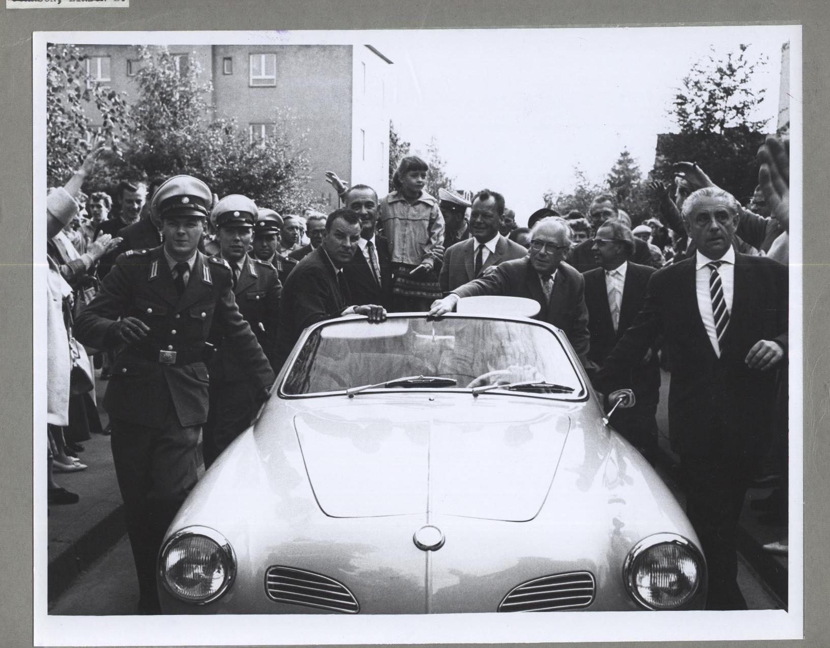 Aug. 20, 1961. Accompanied by a young refugee from East Germany, Vice President Lyndon B. Johnson greets the crowds at the Marienfelde Refugee Camp during his visit to West Berlin. From the booklet "A City Torn Apart: Building of the Berlin Wall." For more information, visit CIA's Historical Collections webpage (